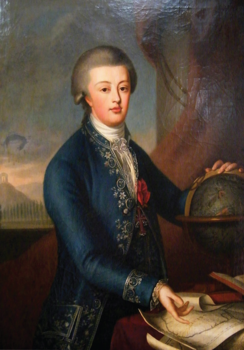 Joseph of Braganza, Prince of Brazil (1761-1788)